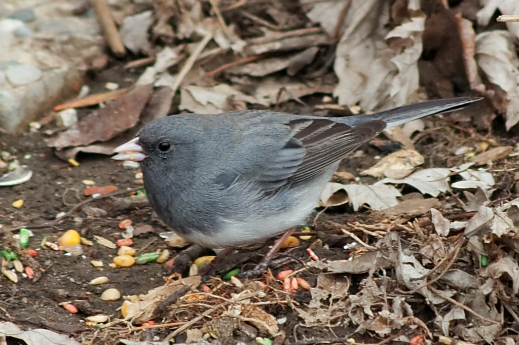 Female Dark-eyed Junco, slate-colored race (Junco hyemalis), taken in Urbana, IL